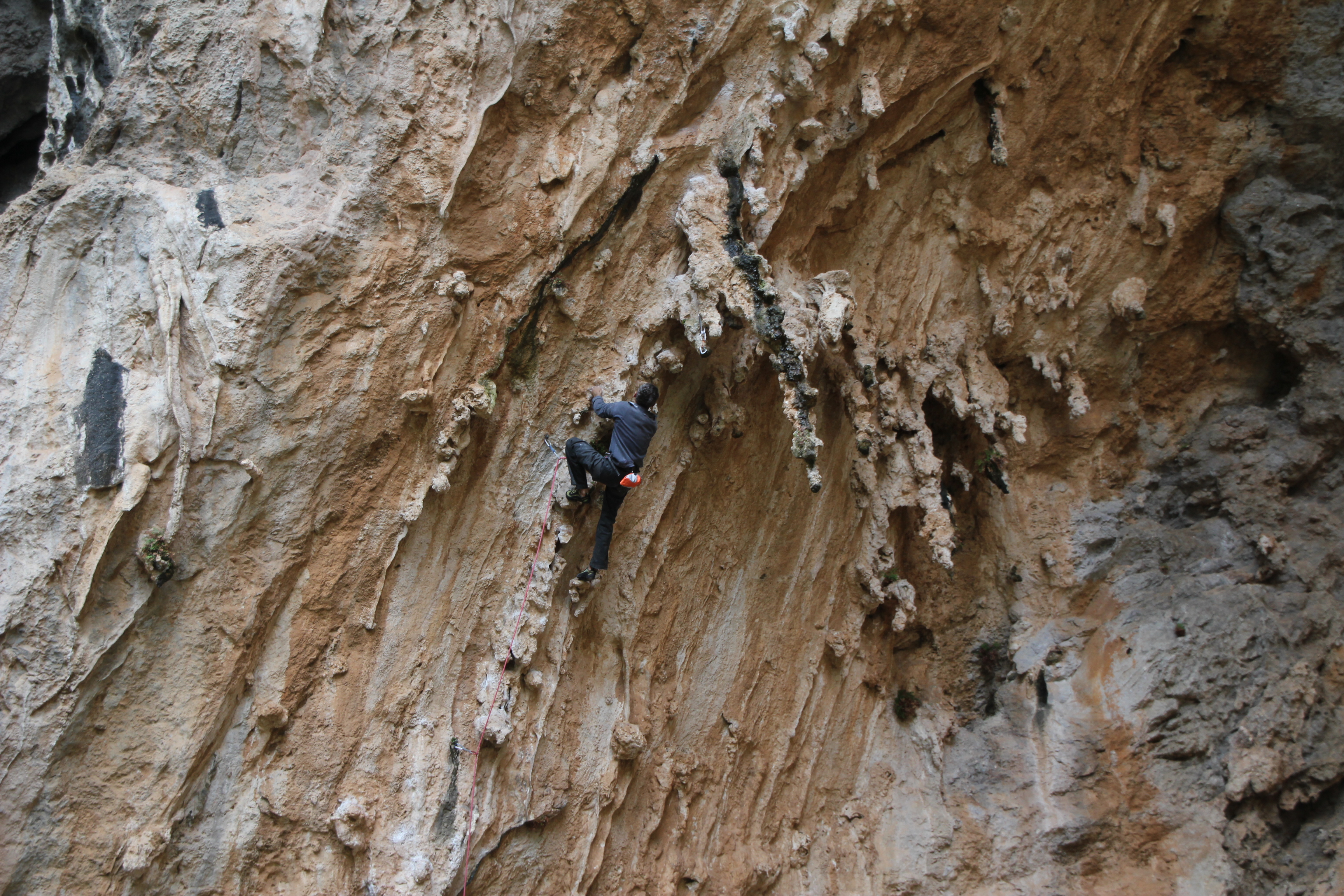 Sikati Cave